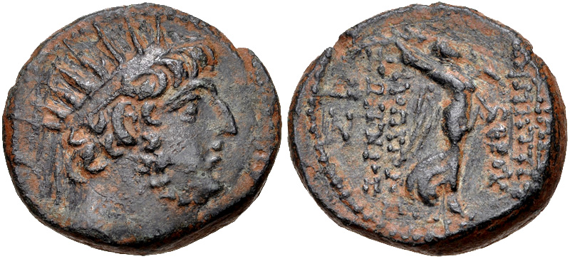 copied from the website: "398, Lot: 321. Estimate $100. Sold for $85. This amount does not include the buyer’s fee. SELEUKID EMPIRE. Demetrios III Eukairos. 97/6-88/7 BC. Æ (21.5mm, 8.46 g, 1h). Damaskos mint. Uncertain date. Radiate and diademed head right / Nike advancing right, holding palm and wreath; in outer left field, uncertain monogram above N; [date in exergue]. Cf. SC 2454; HGC 9, 1309. VF, dark green-brown patina, some light deposits, cleaning marks."